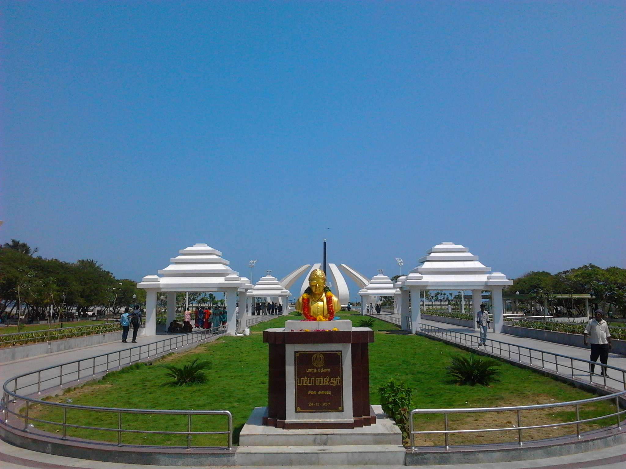 A general view of the MGR Memorial, Chennai